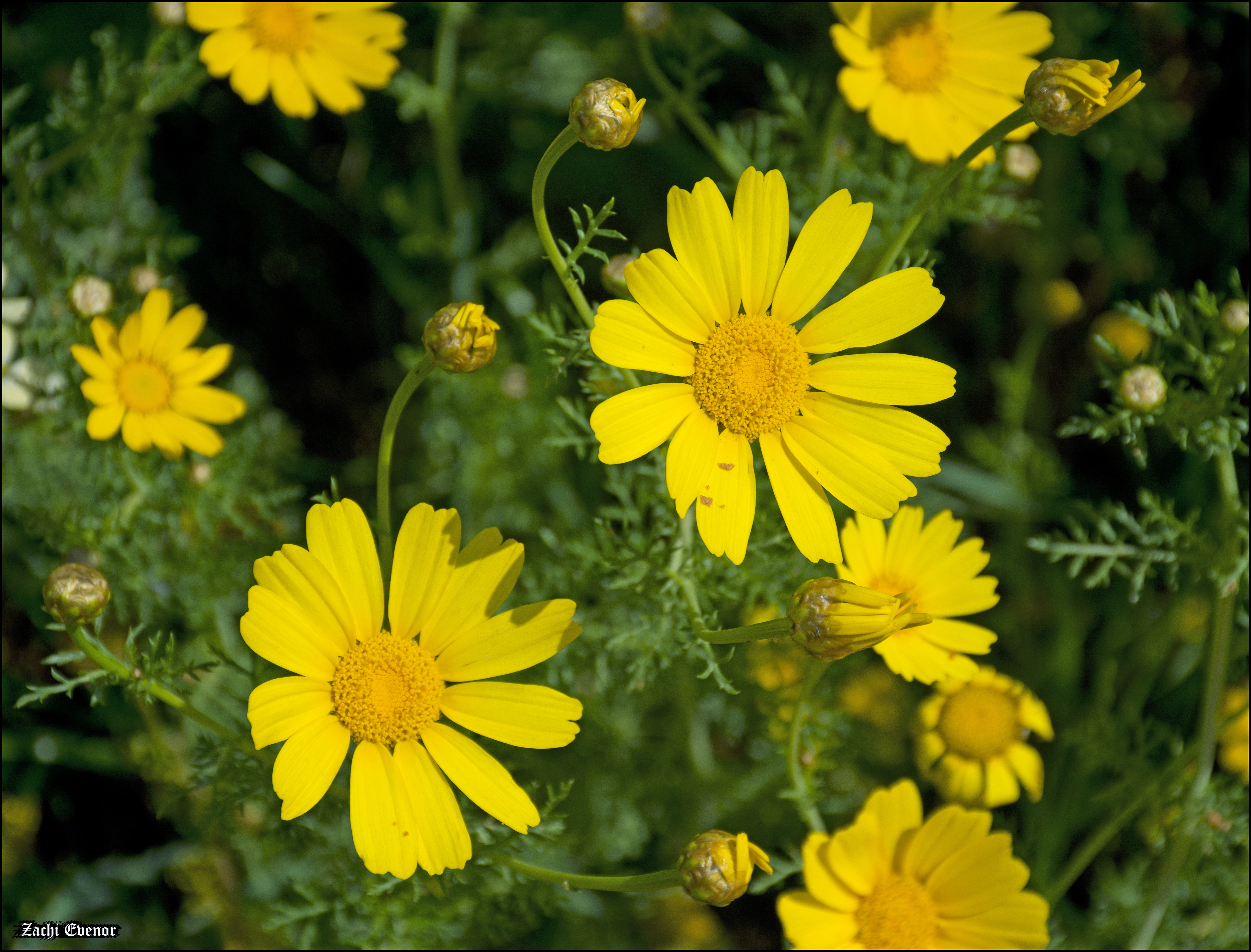 Crown Daisy, Chrysanthemum coronarium / Glebionis coronaria, Hadera, Israel